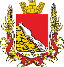 Voronezh coat of arms